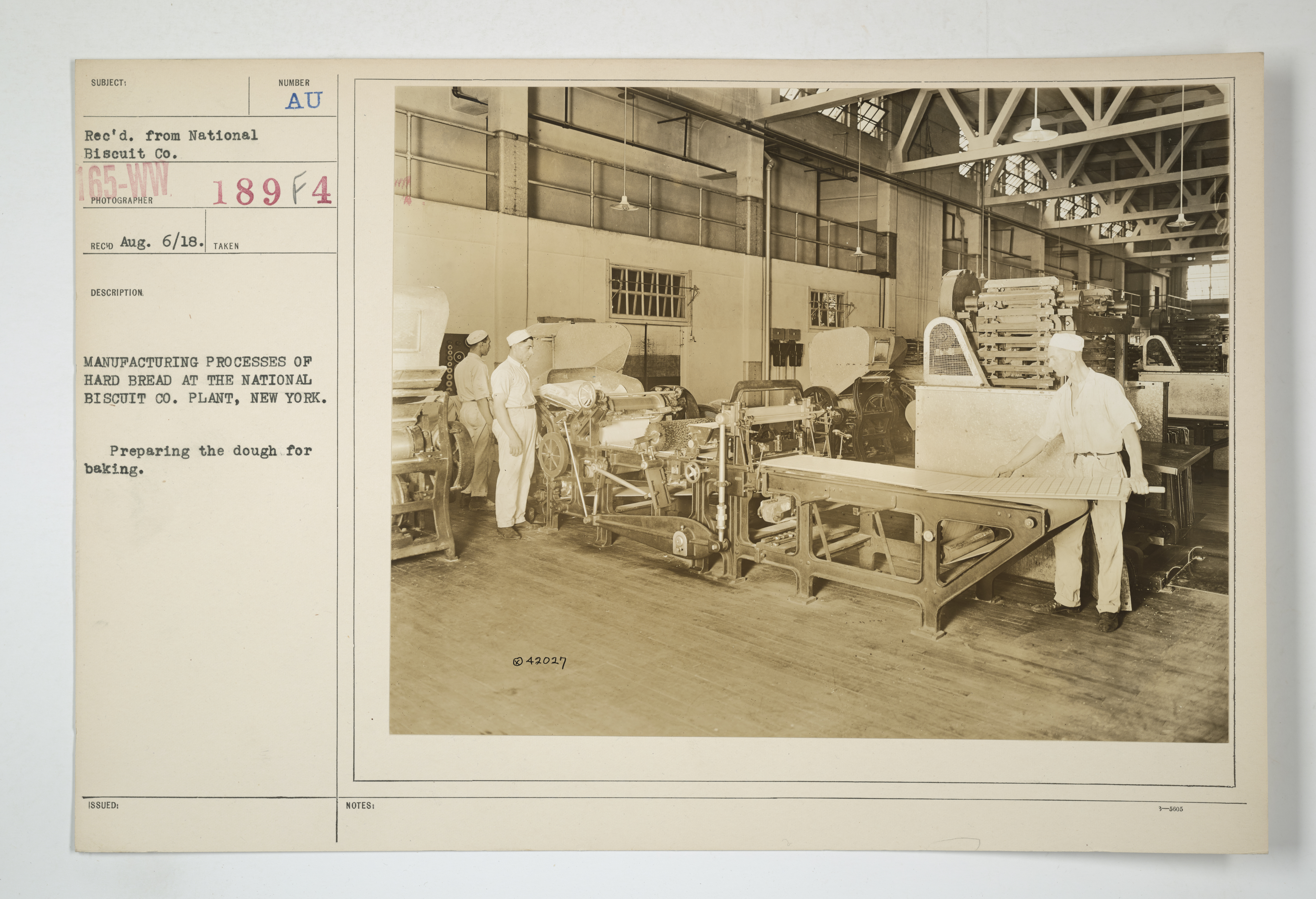 Scope and content: Photographer: National Biscuit Co.